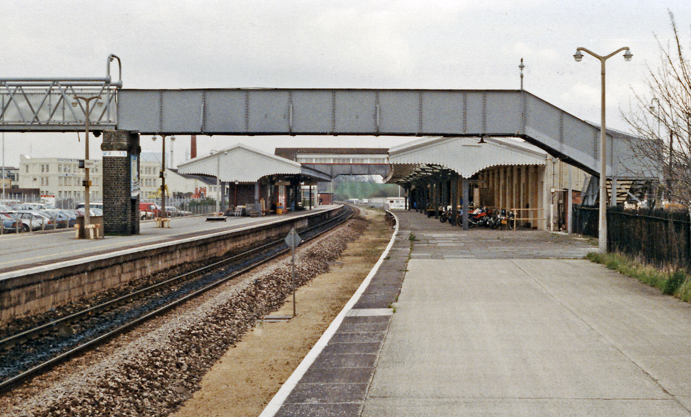 Chippenham station, 1989. View NE, towards Swindon, Reading and London: ex-GWR London (Paddington) - Swindon - Bristol etc. main line. Note that by 1989 the track had been removed from the Down platform line: this may have been done when the service to Trowbridge was withdrawn in 5/68 - but restored in 5/85.